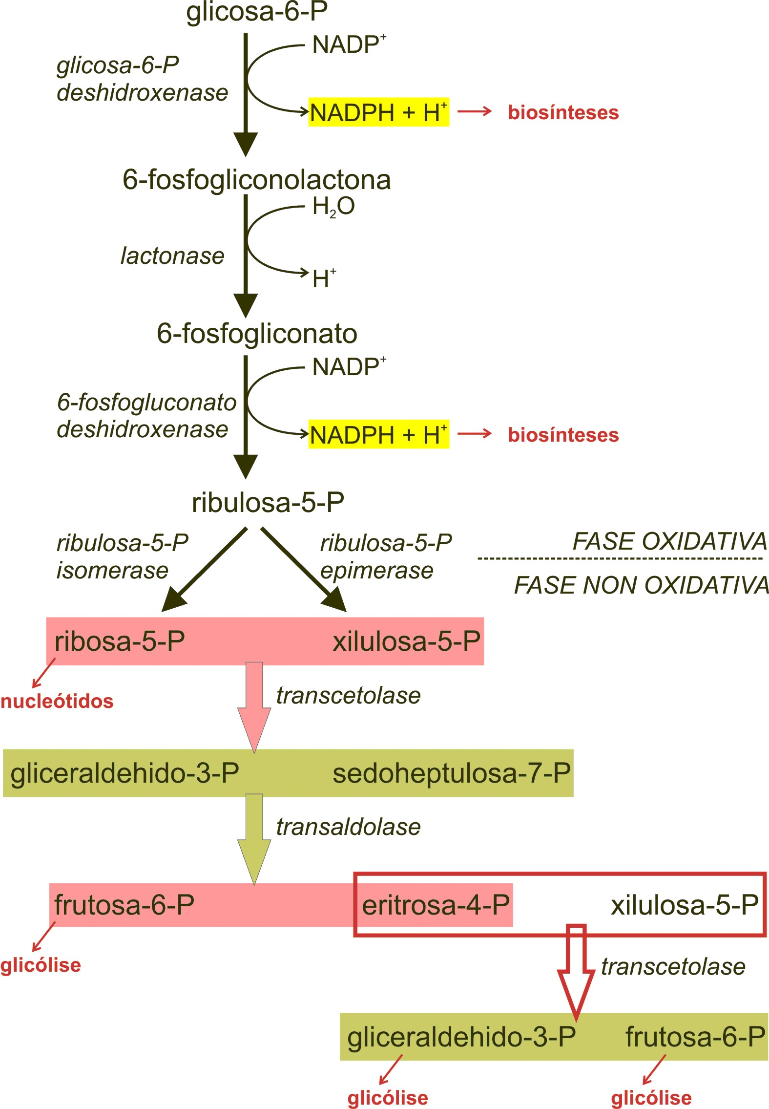 pentose-phosphate patheway diagram jpg in Gallician